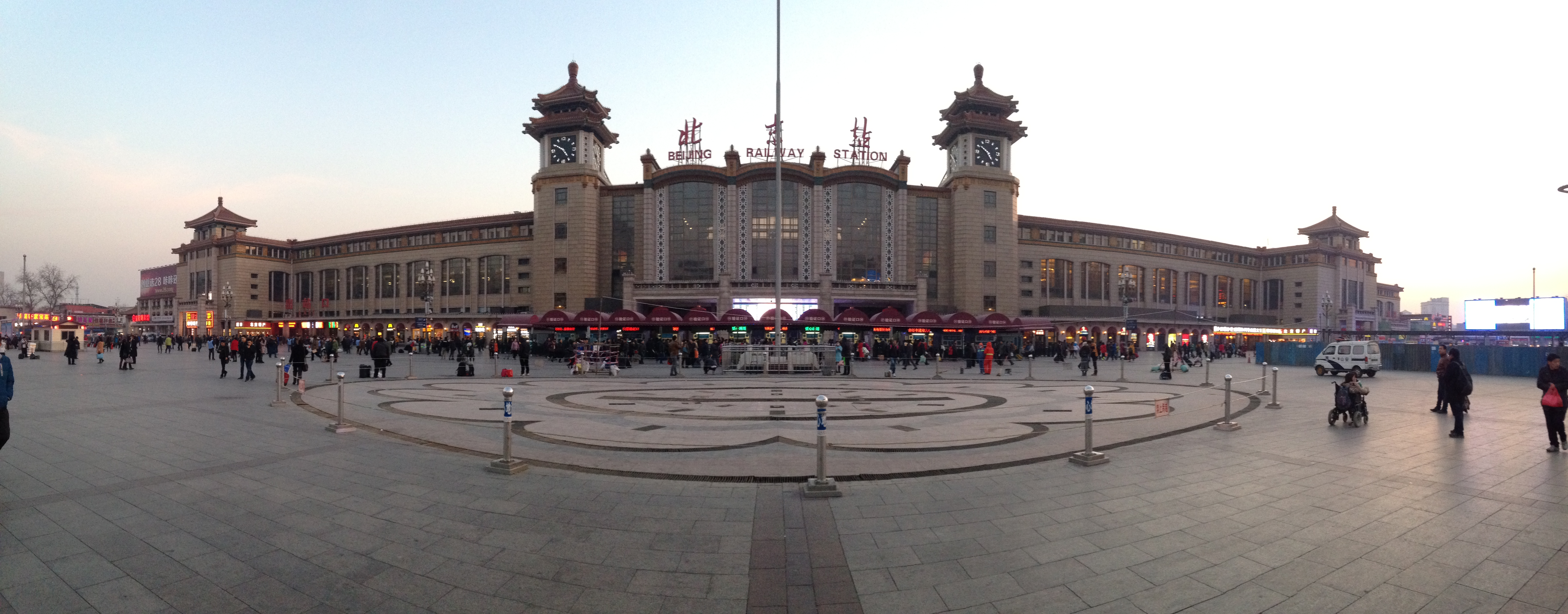 Beijing Rail Station